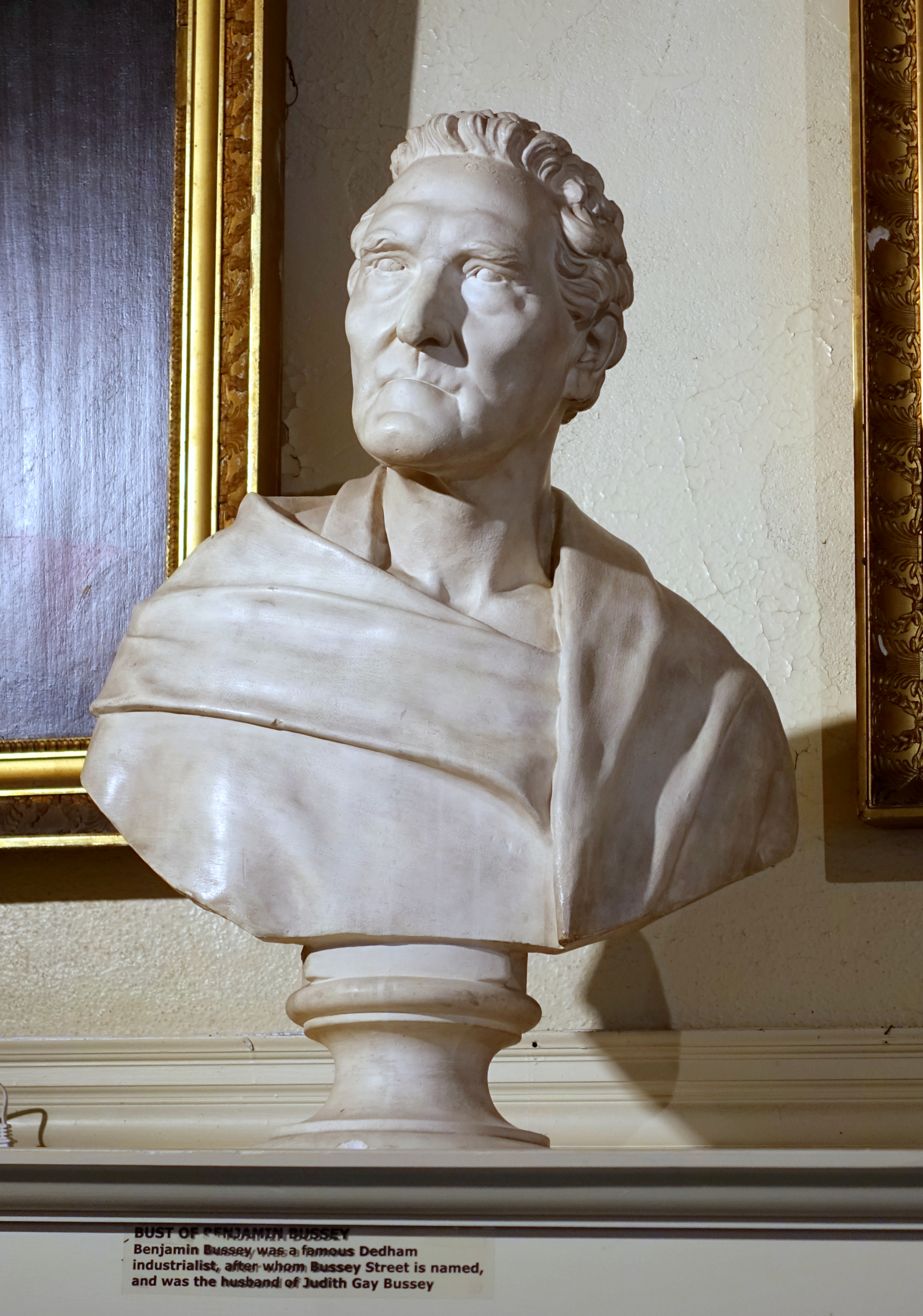 Exhibit in the Dedham Historical Society - Dedham Massachusetts, USA.